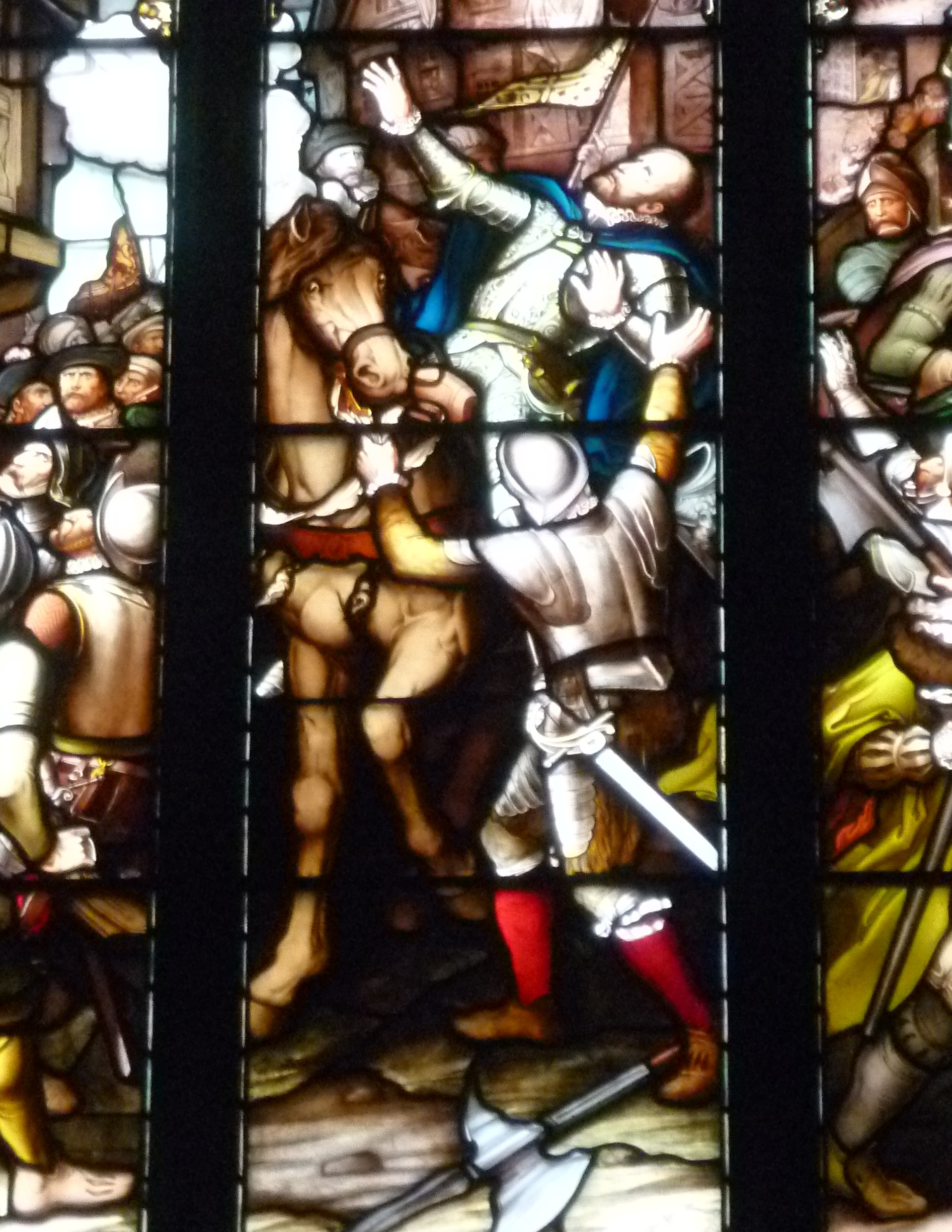 Detail from the Regent Moray window, St. Giles, Edinburgh